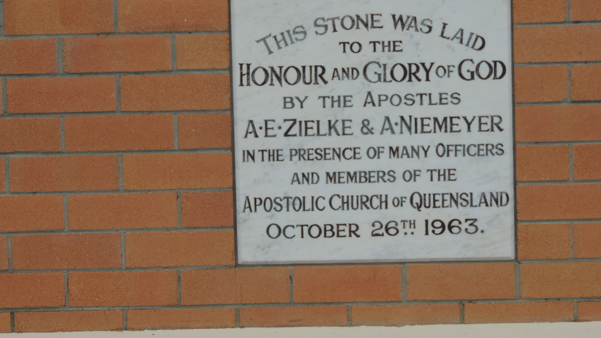 Foundation stone, Apostolic Church, Norwell, 2014